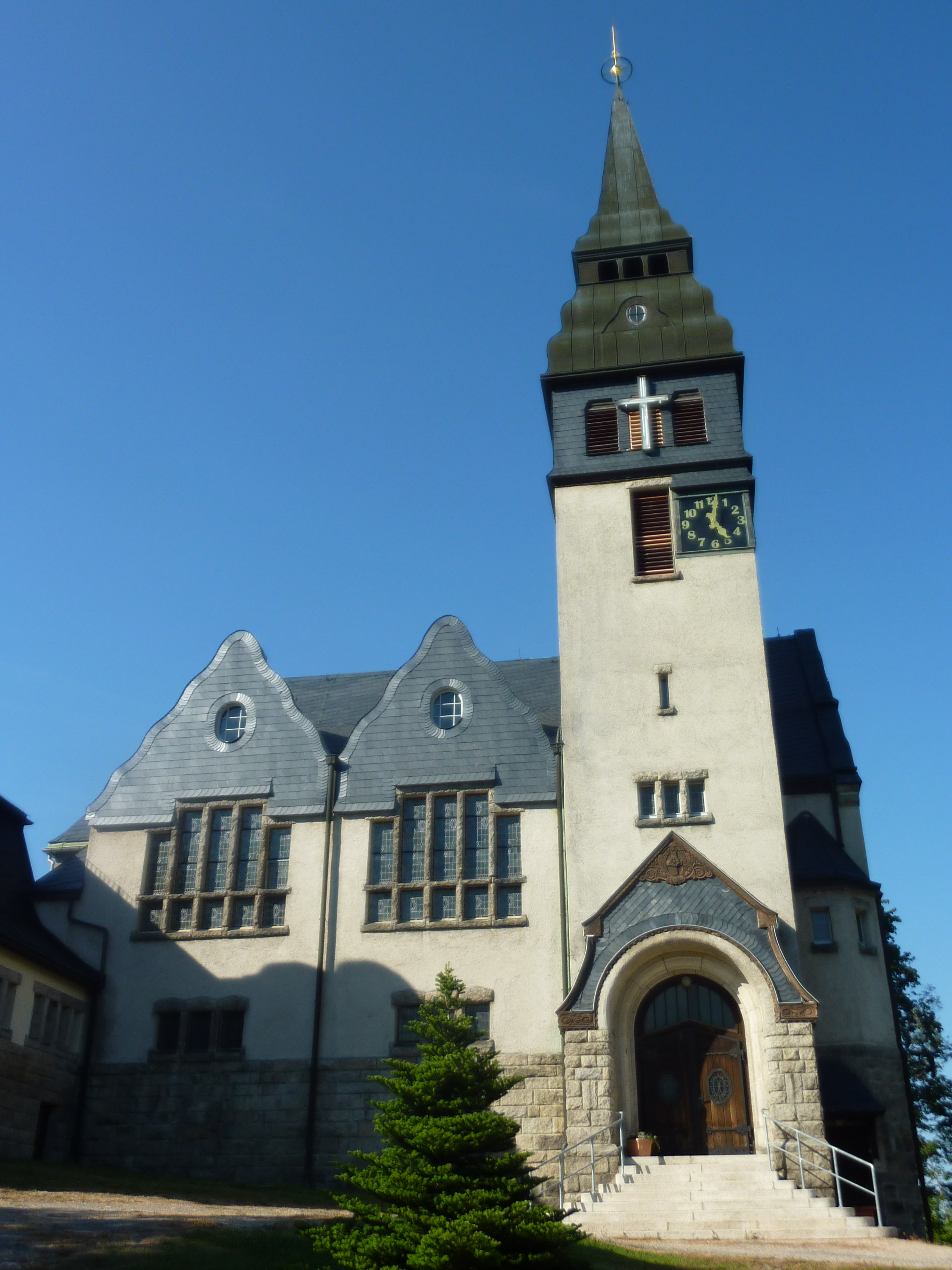 Church in Tannenbergsthal, Vogtland (Saxony), Germany